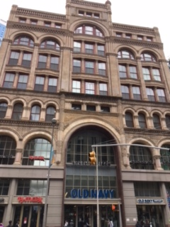 The Offerman Building in Fulton Street